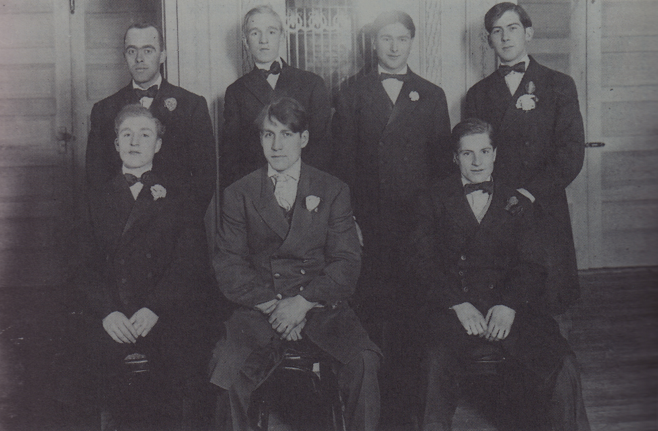 Photo of the Princess Theatre, Edmonton ushers just before opening in March of 1915. Housed in the Glenbow Museum, item number NA-1328-492.